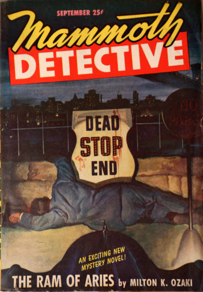 Mammoth Detective, September 1947